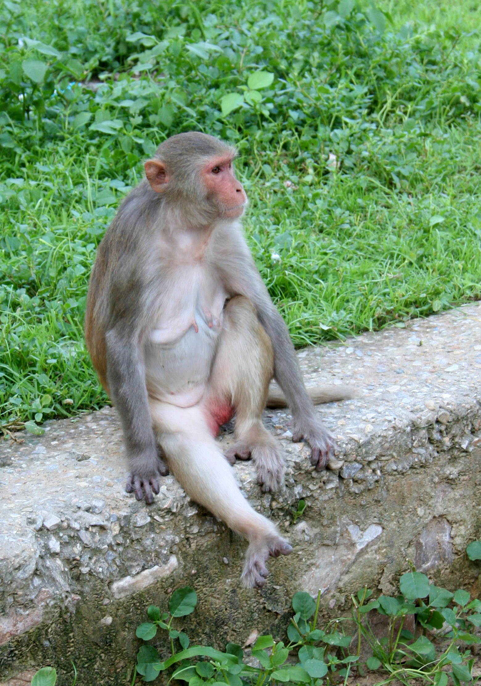 Female rhesus macaque at Galtaji (Macaca mulatta), Jaipur, Rajasthan, India.